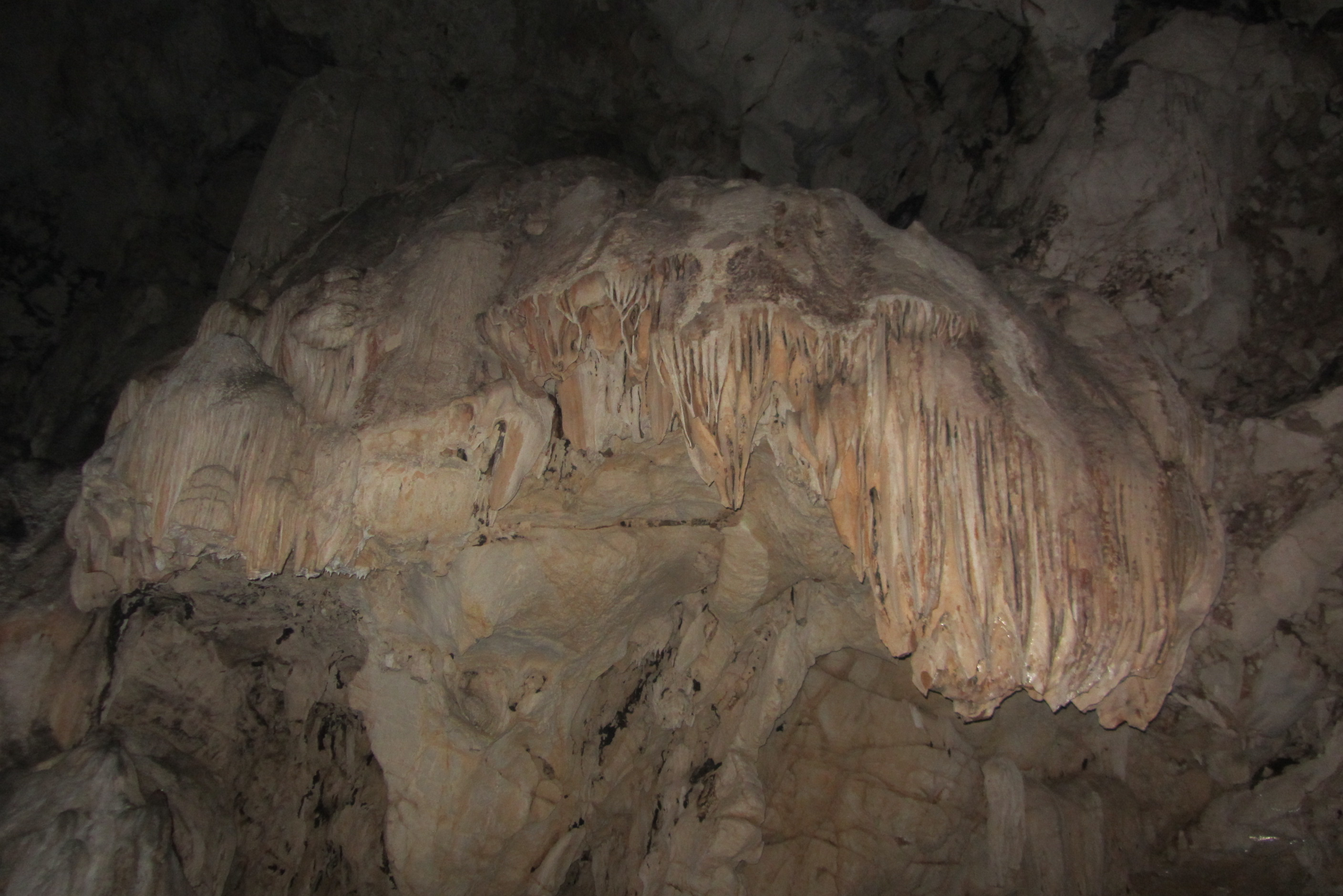 Stalactite flow in Phoenix Cave, Thai Nguyen Province, Vietnam